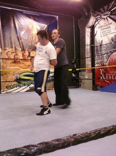 Nick Brooks putting fellow trainee Eric in Hammerlock